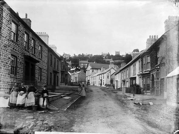 1 negative : glass, dry plate, b&w ; 16.5 x 21.5 cm.